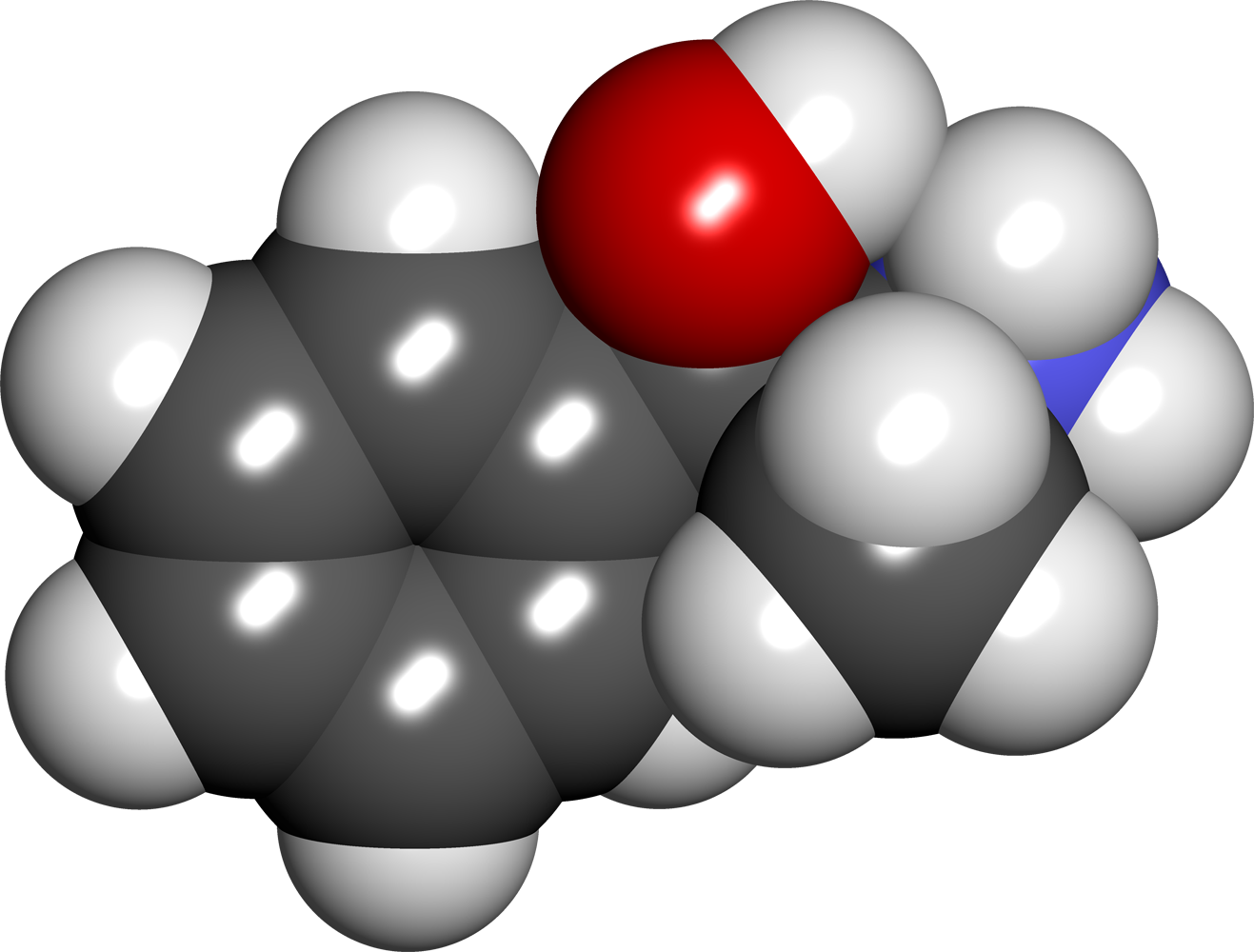 A space filling diagram of phenylpropanolamine.